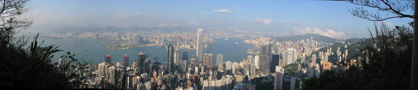 A view of Hong Kong Island in March 2004